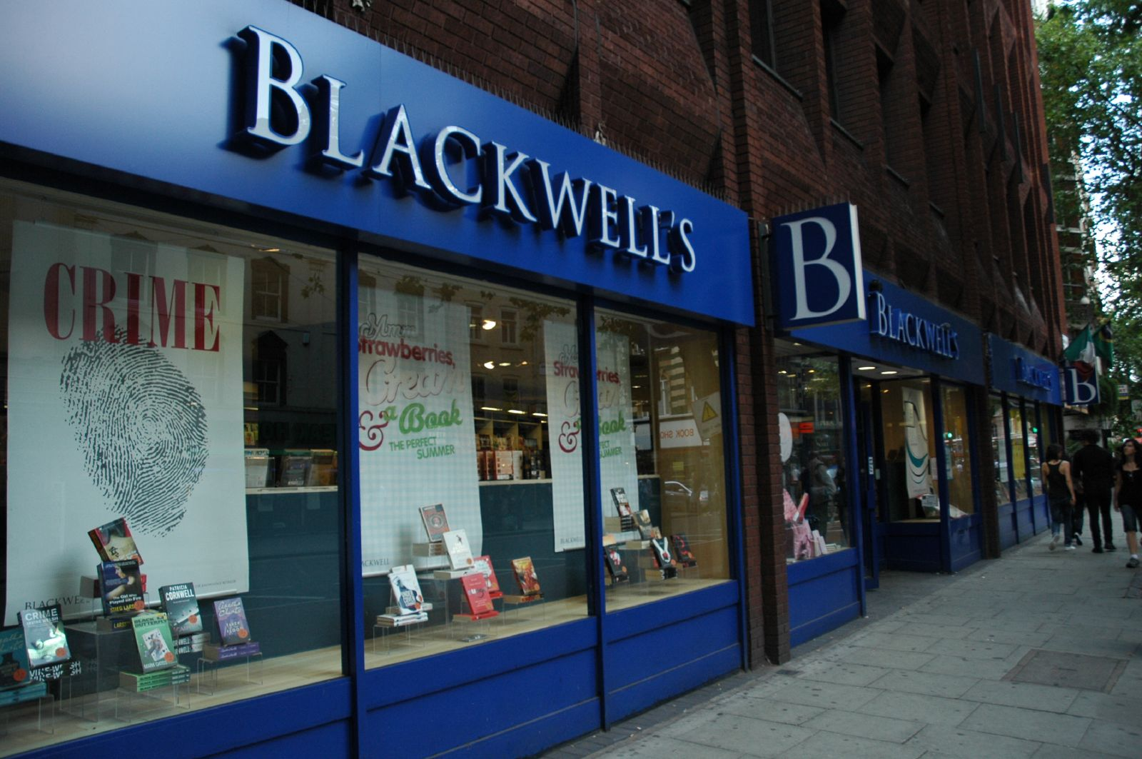 Blackwell's Charing Cross branch